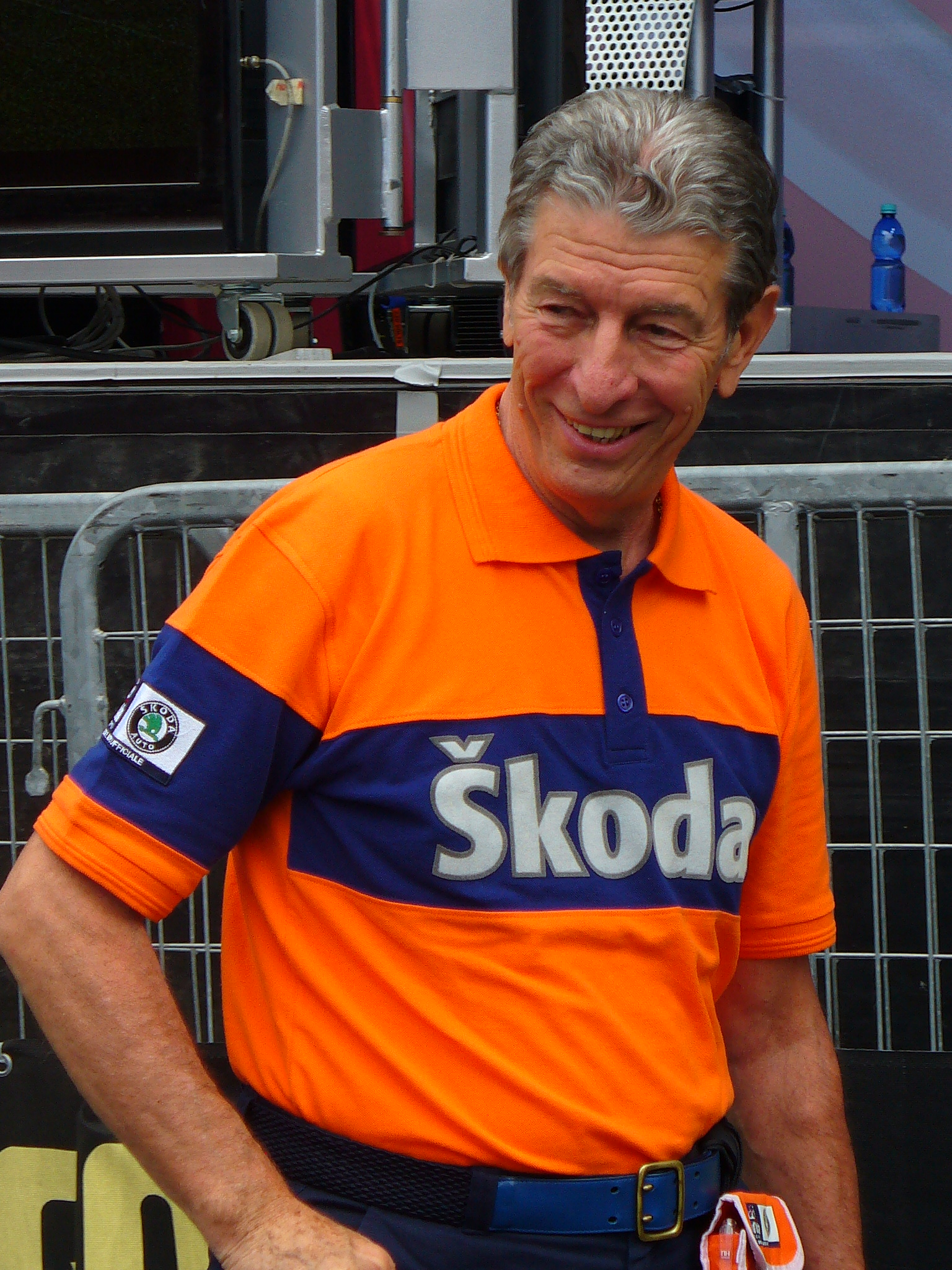 Felice Gimondi during Neaples-Anagni, second-last stage of the Giro 2009